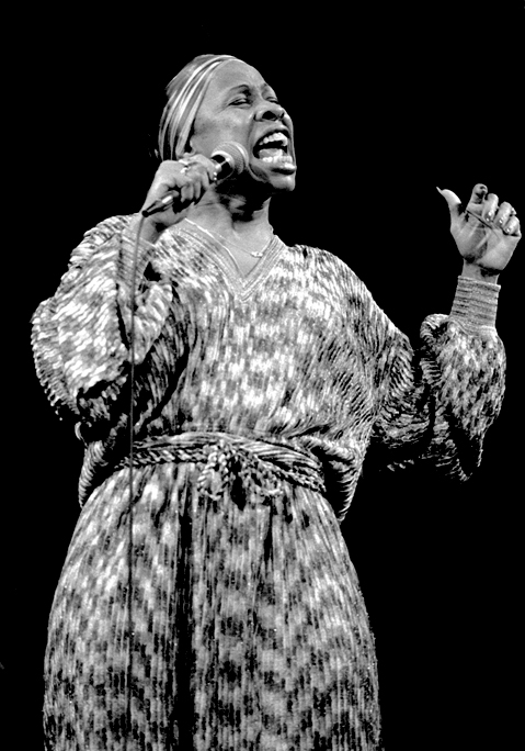 Jazz singer Betty Carter at Great American Music Hall, San Francisco 1979. Photo: Brian McMillen /